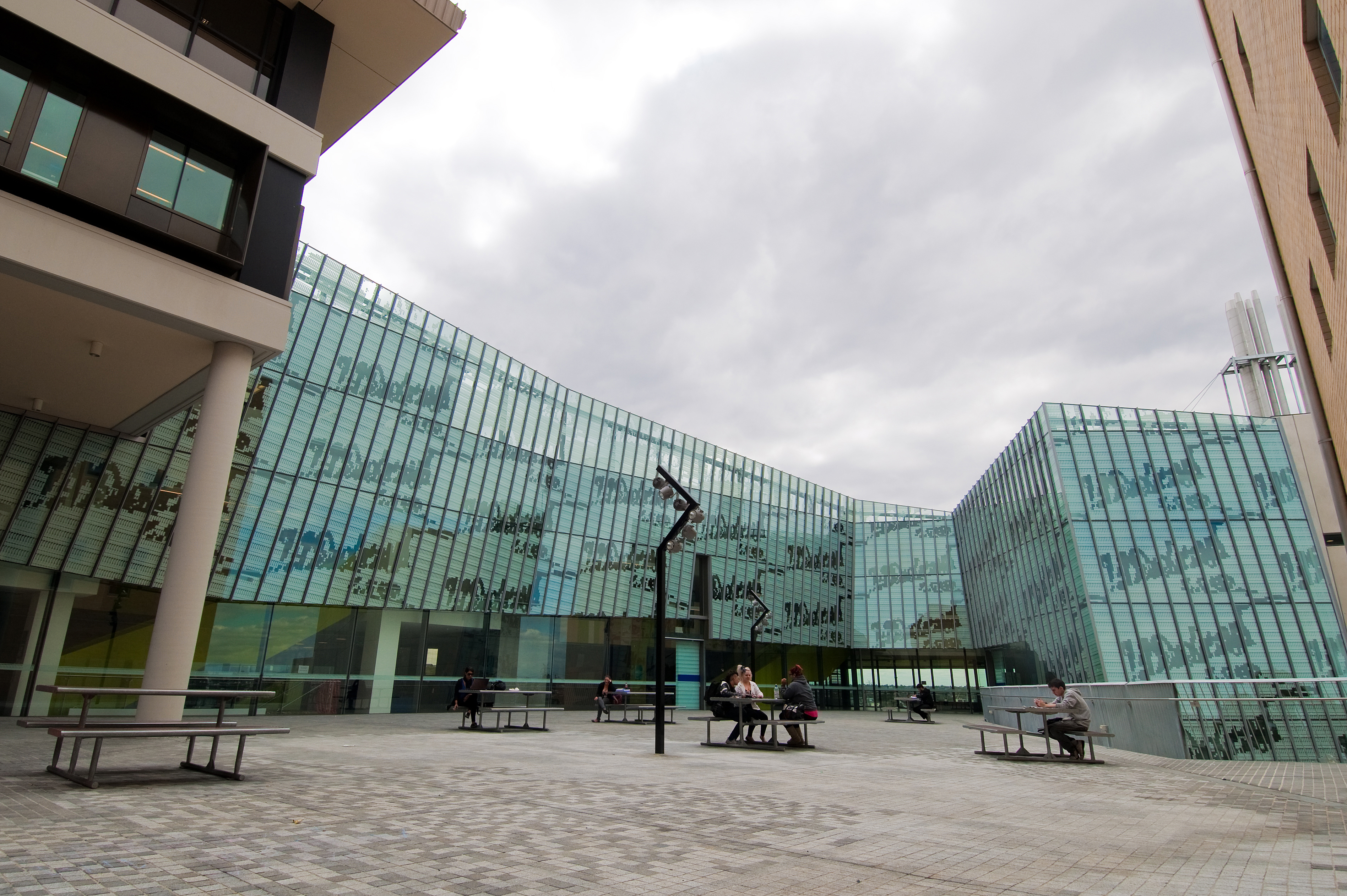 Outside the Learning Commons (P building) of Footscray Park campus of Victoria University. Located in Melbourne Australia. The building is also home to the Institute of Sport, Exercise and Active Living.